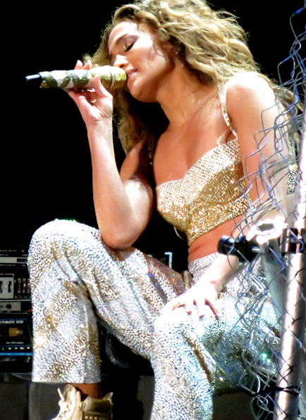 Jennifer Lopez live at the Pop Music Festival in São Paulo, Brazil.